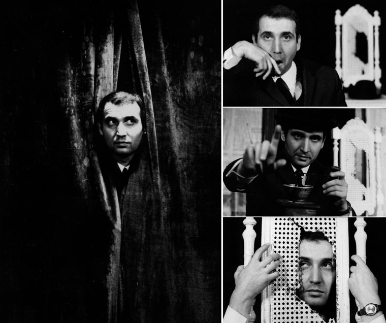 György Sándor, Hungarian showman